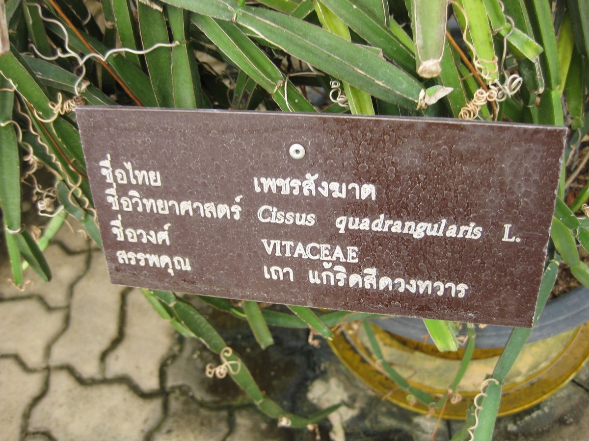 Photographed at the Queen Sirikit Botanic Garden (Chiang Mai Province, Thailand) in March